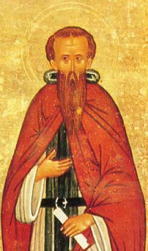 Феодосий Печарский / Feodosiy Pechersky (detail of the existing file) деталь иконы XV века